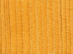 Cedrus wood - photo User:MPF - resized to 4:3